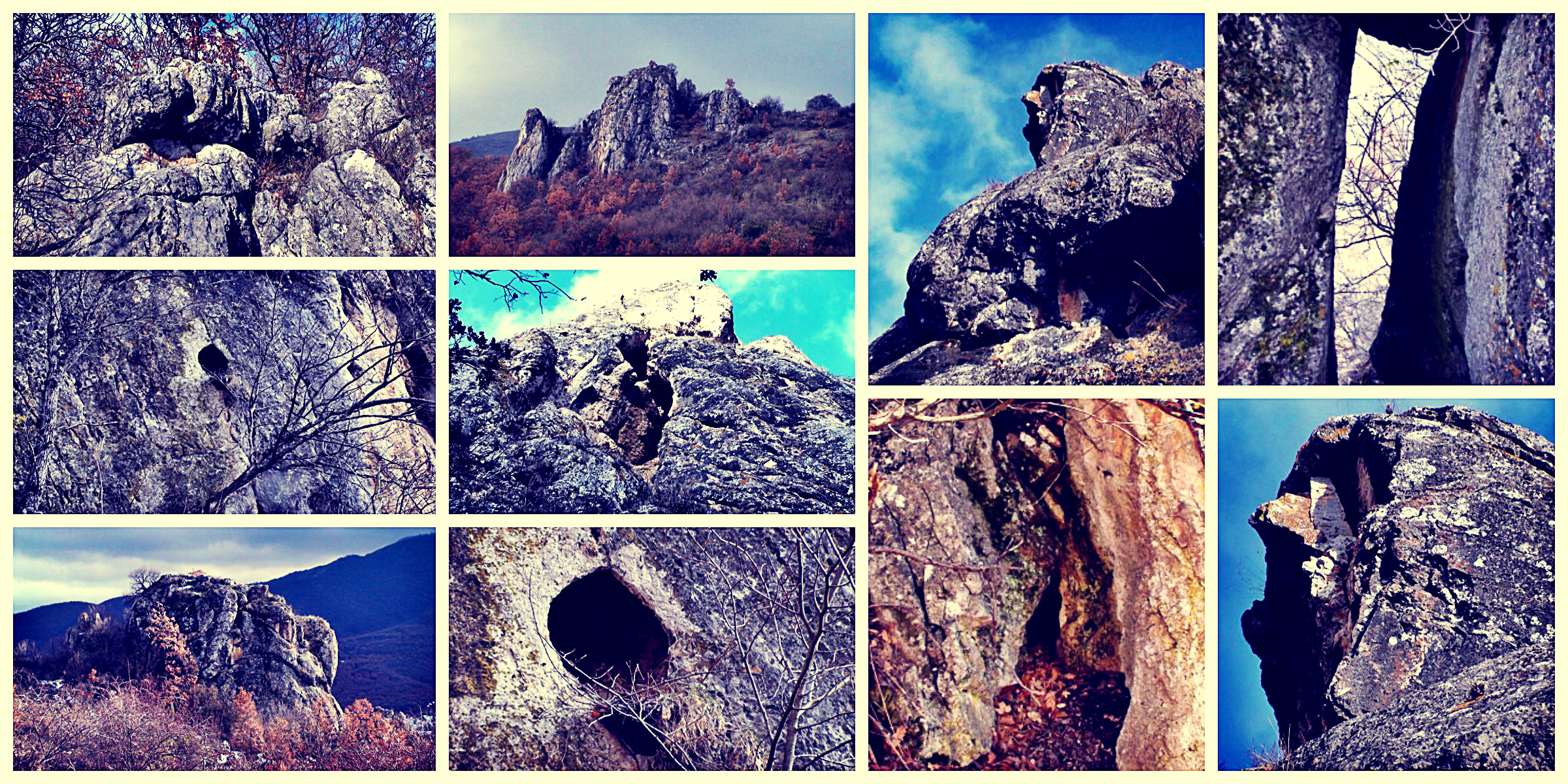 Vran_kamik_Vranya_stena_BG